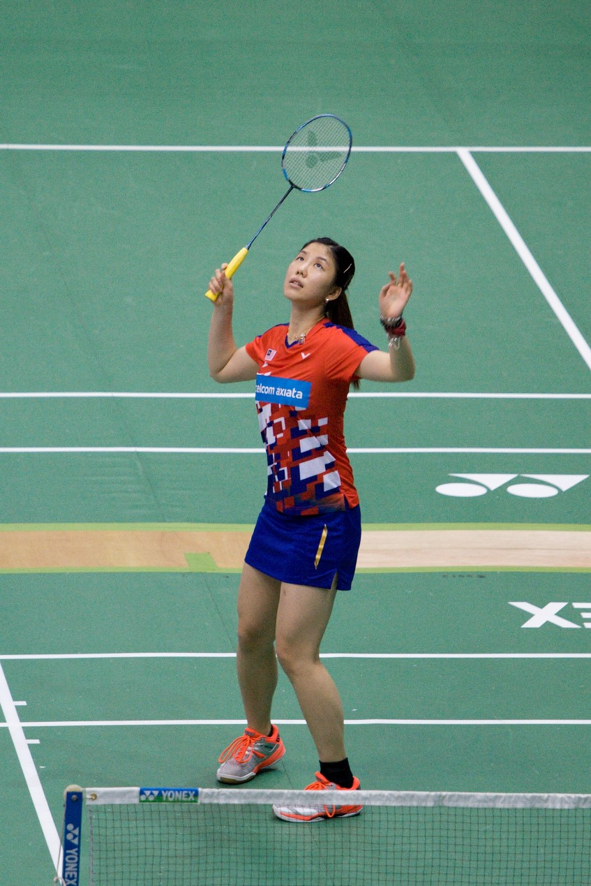 Yonex Chinese Taipei Open 2018 - Quarterfinal Soniia Cheah